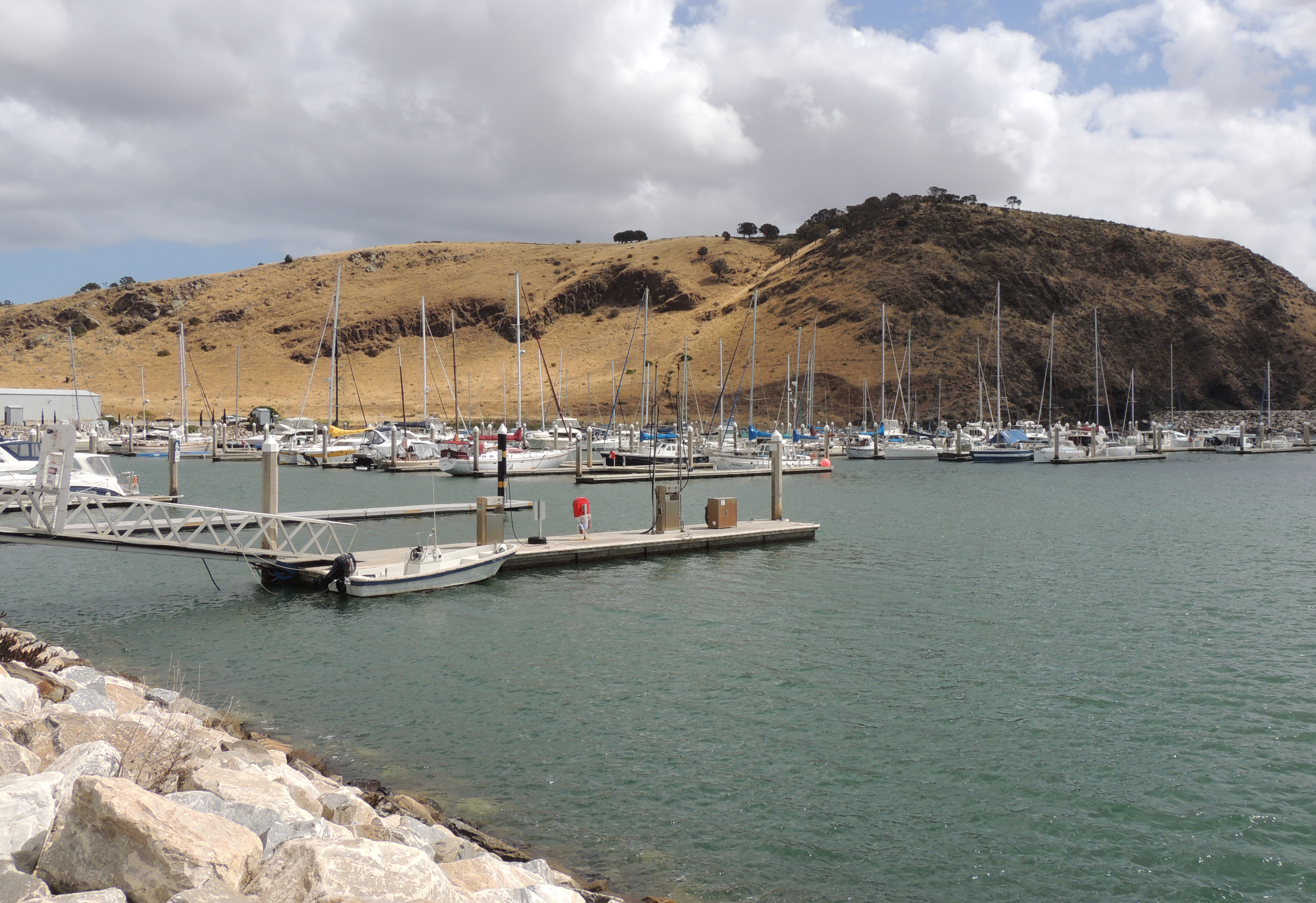 Wirrina Cove marina, South Australia 2015